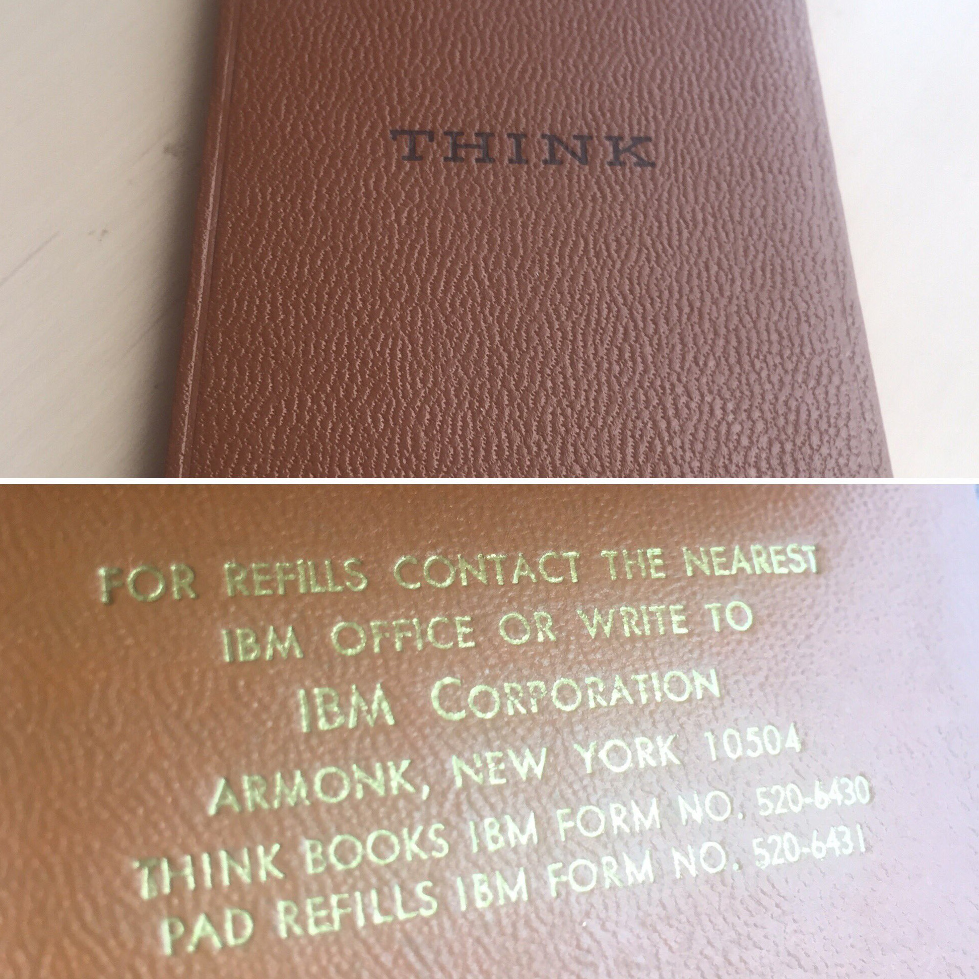 Original IBM ThinkPad paper notepad which inspired the laptop's name